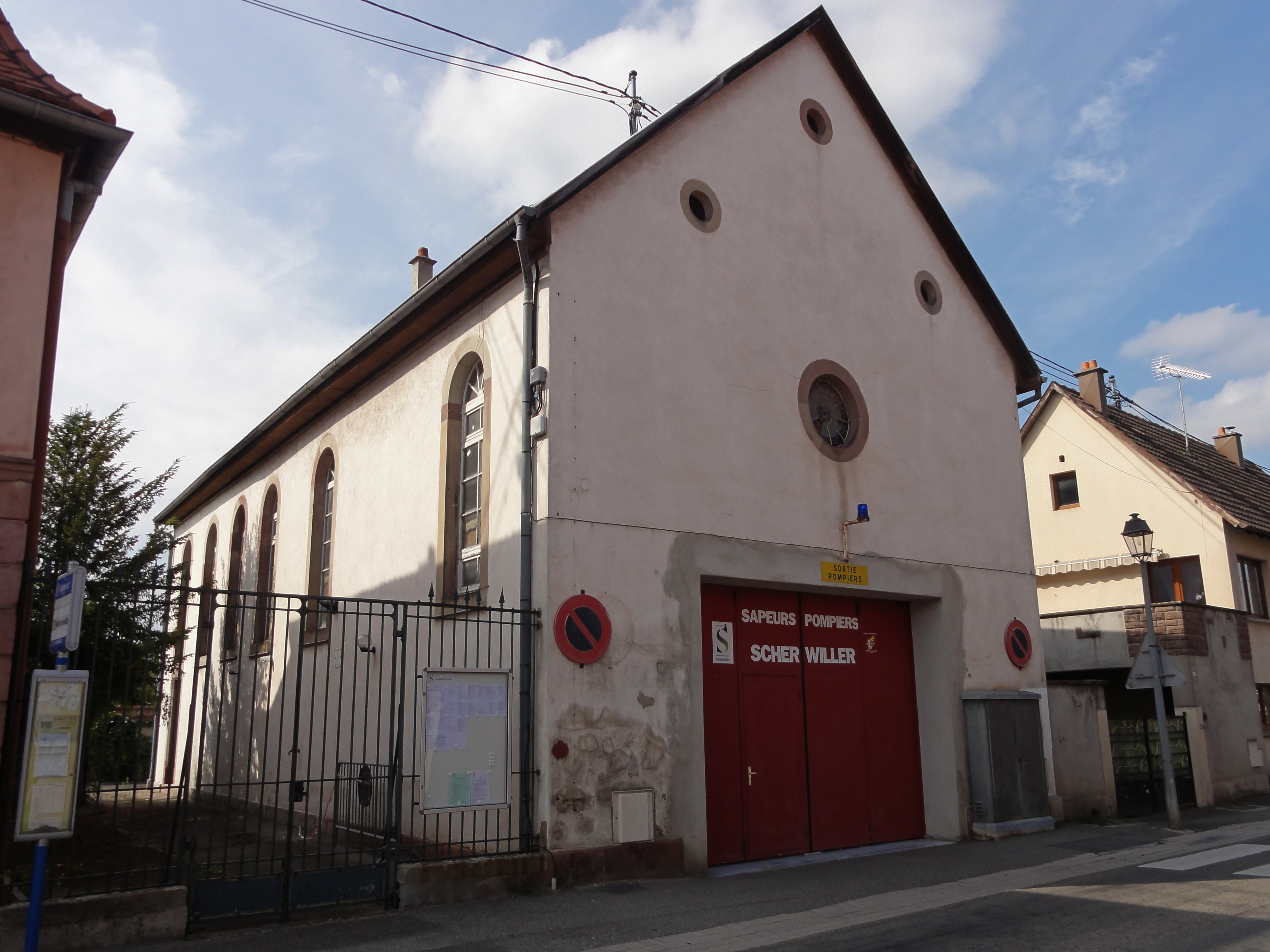 Alsace, Bas-Rhin, Scherwiller, Synagogue (1790-1861): It is indexed in the Base Mérimée, a database of architectural heritage maintained by the French Ministry of Culture, under the references PA00084974 and IA00124543.